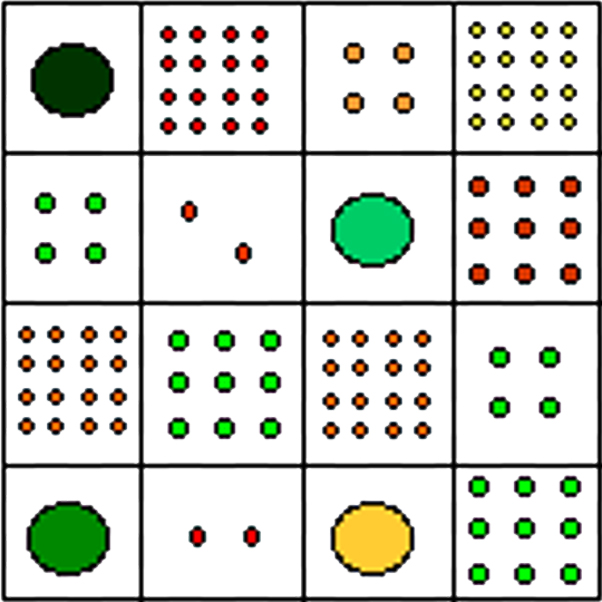 Basic 4x4, 16-unit "square foot garden."